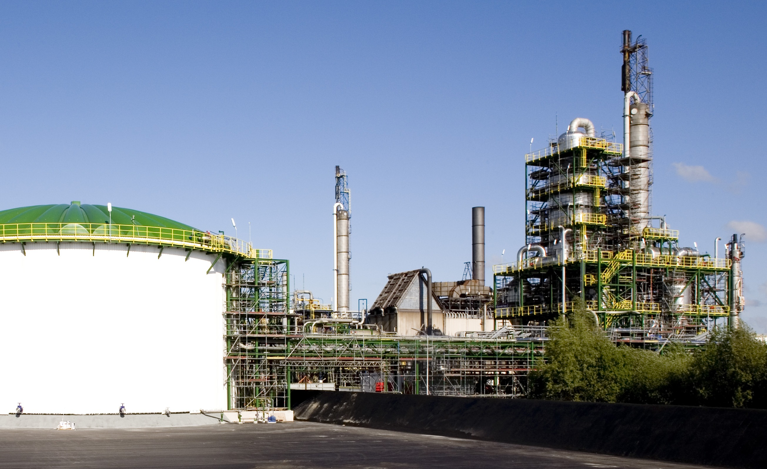 BioMCN May 2009, construction nearly complete